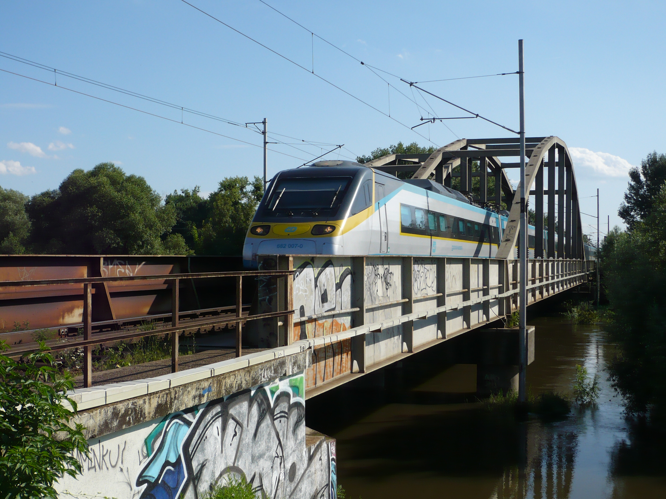 CD class 682 007-0 Supercity "Antonín Dvořák" (SC 16) from Vienna to Prague crossing the first bridge over Thaya (Dyje). Note: the second rail track was under reconstruction at that time